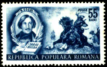 The stamp of Romania devoted to the 100 anniversary from the date of death N.V.Gogol (Taras Bulba), 1952